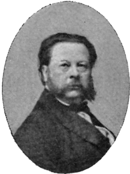 Image scanned from the book "Svenskt Porträttgalleri XX - Arkitekter, Bildhuggare, Målare m.fl. " ("Swedish Portrait Gallery XX - Architects, Sculptors, Painters, ") published 1901